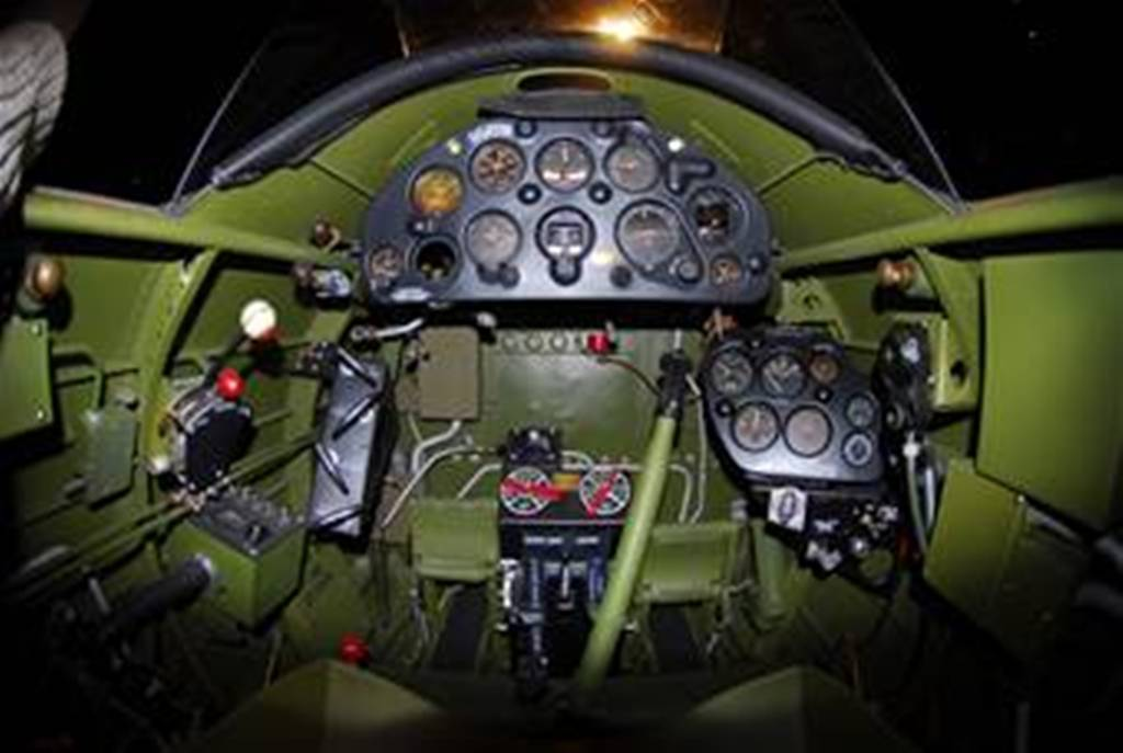 Picture take at the US Air Force Museum of A-17A 36-0207 instrument panel.